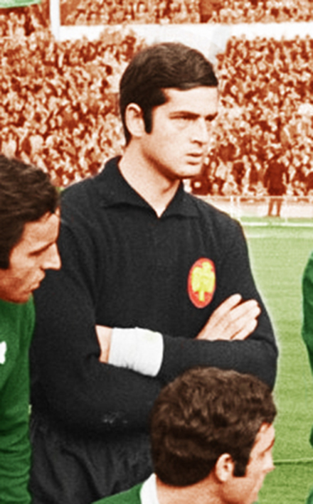 Takis Ikonomopoulos Panathinaikos - Ajax, Wembley, 1971